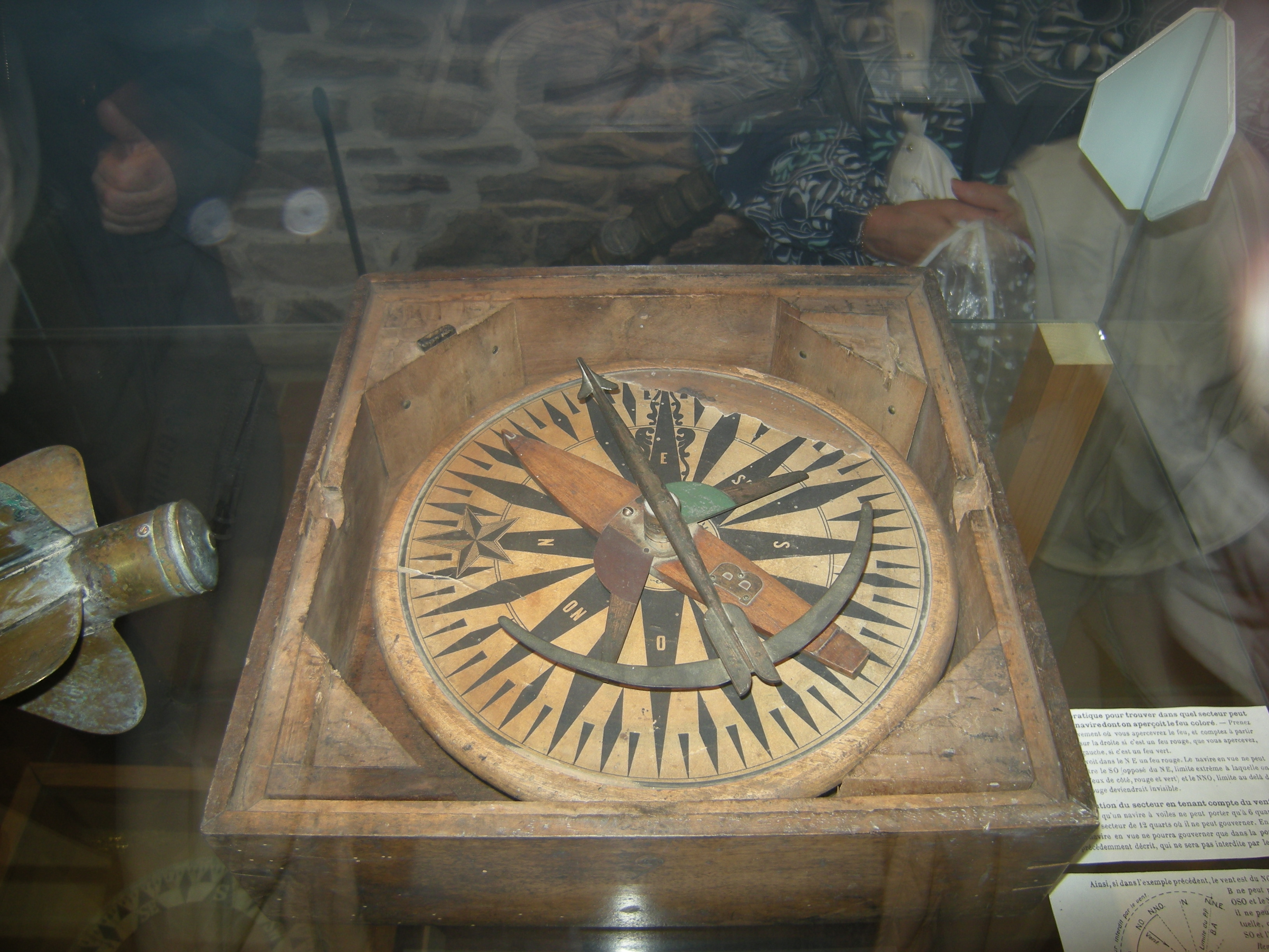 Pelorus. Used for calculation of another vessel course, on sailing ships by night. Maritime museum of Paimpol.